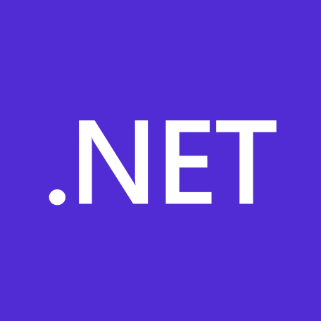 .NET logo.